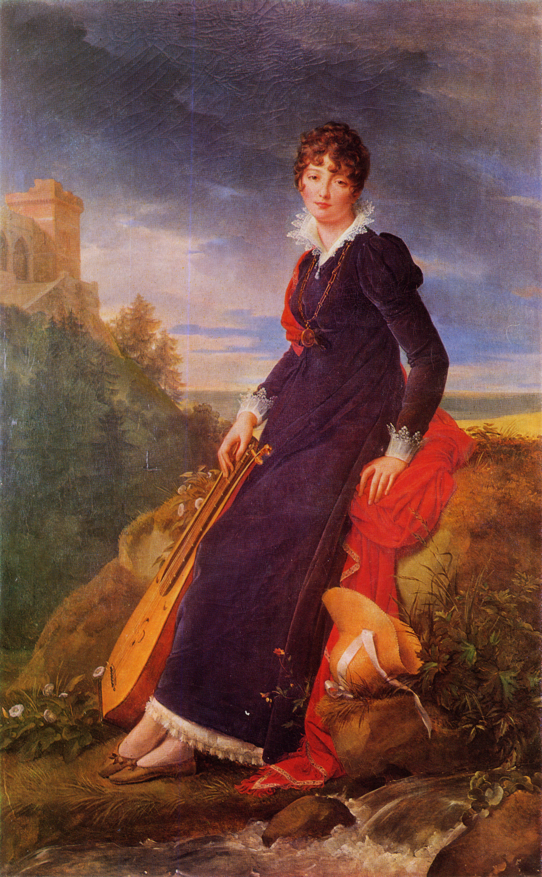 Portrait of Catherine Starzeńska.